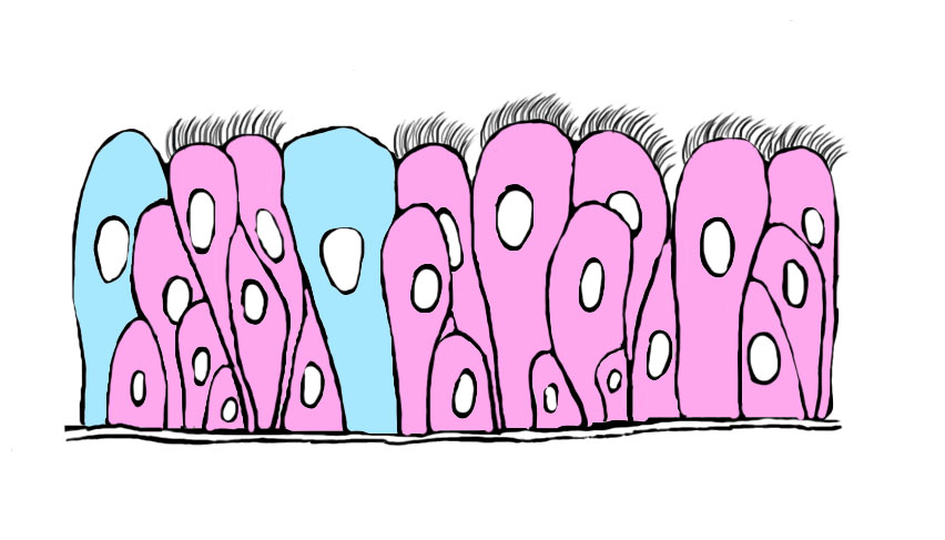 Ciliary epithelium: cylindric stratified epithelium with ciliary epithelial cells (pink) and goblet cells (blue)